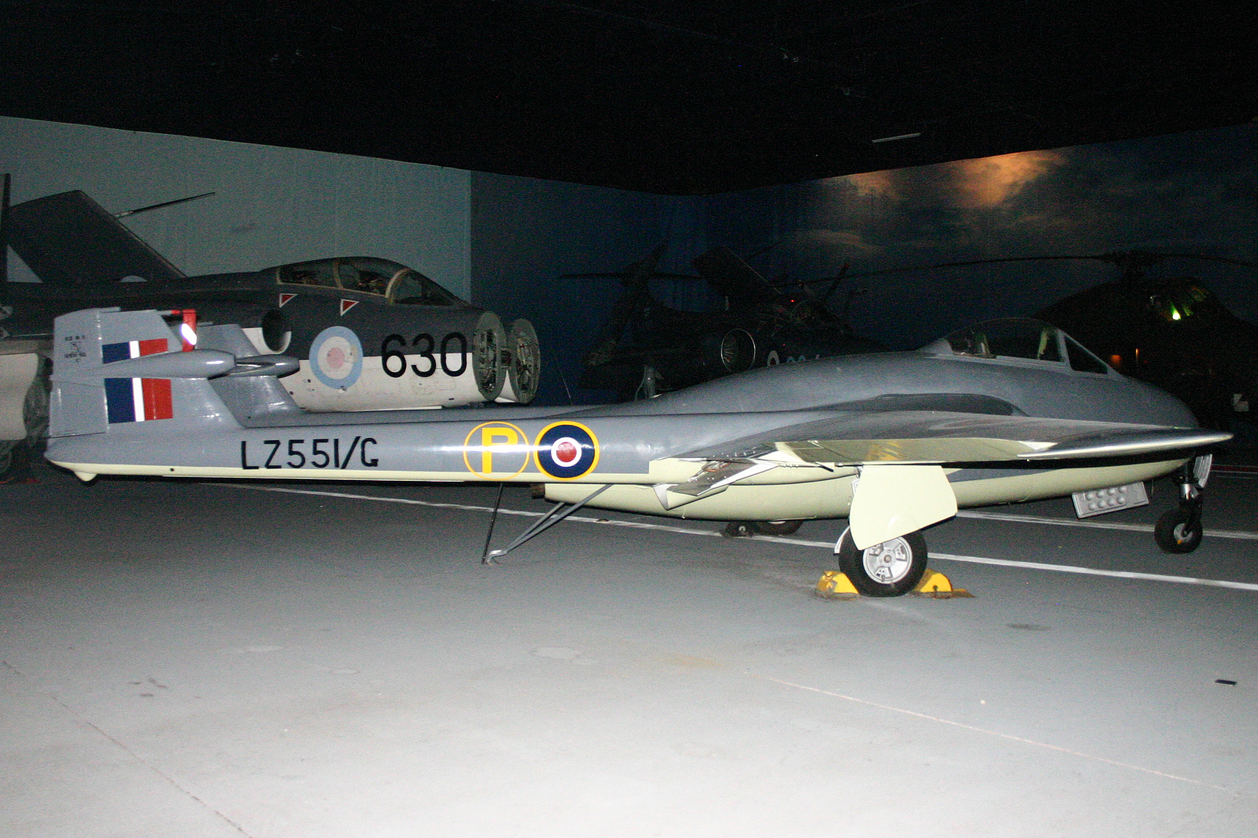 3rd Prototype. On 3rd December 1945, pilotted by Lt/Cmdr EM Brown RNVR, this aircraft carried out the first jet landing on a ship at sea, the ship being HMS Ocean. Now displayed in 'Carrier' exhibition. FAA Museum Yeovilton. 15-6-2011